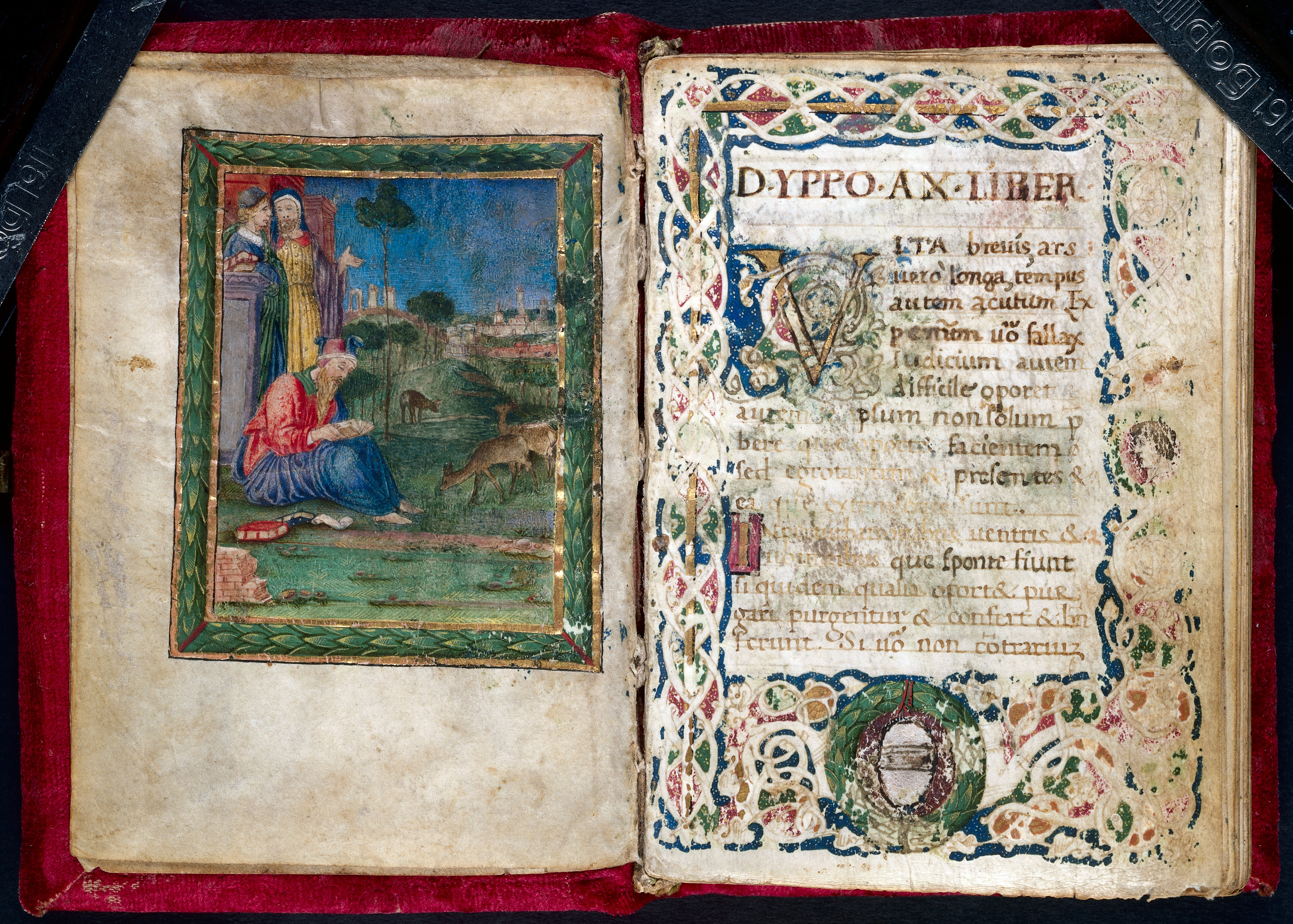 Hippocrates {460-375 B.C.}, Aphorismi, manuscript, s.l. {Florence?}, n.d. {late 15th century}. Third leaf containing the opening text, the first aphorism within a decorated border in gold and colours, with a illuminated capital V in gold with ornamental background, initial of the incipit "Vita brevis, ars vero longa" (or "Life is short, but the art is long") rendered as "Vita breuis, ars uero longa". The picture shows a master in cathedra expounding on the Aphorisms of Hippocrates.Archives & Manuscripts Keywords: aphorism; hippocrates; s1649; wms 353; Manuscripts